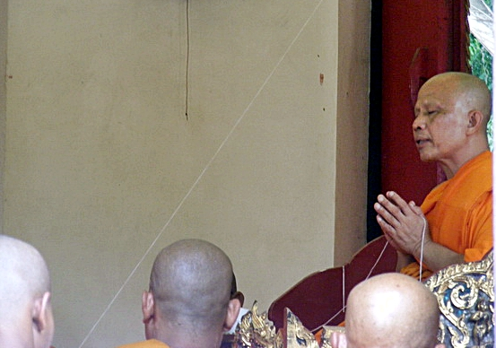 Buddhist monk in Buddhist church on Uposatha Day Location: Wat Khung Taphao Ban Khung Taphao, Khung Taphao subdistrict, Mueang Uttaradit, Uttaradit Province, Thailand.